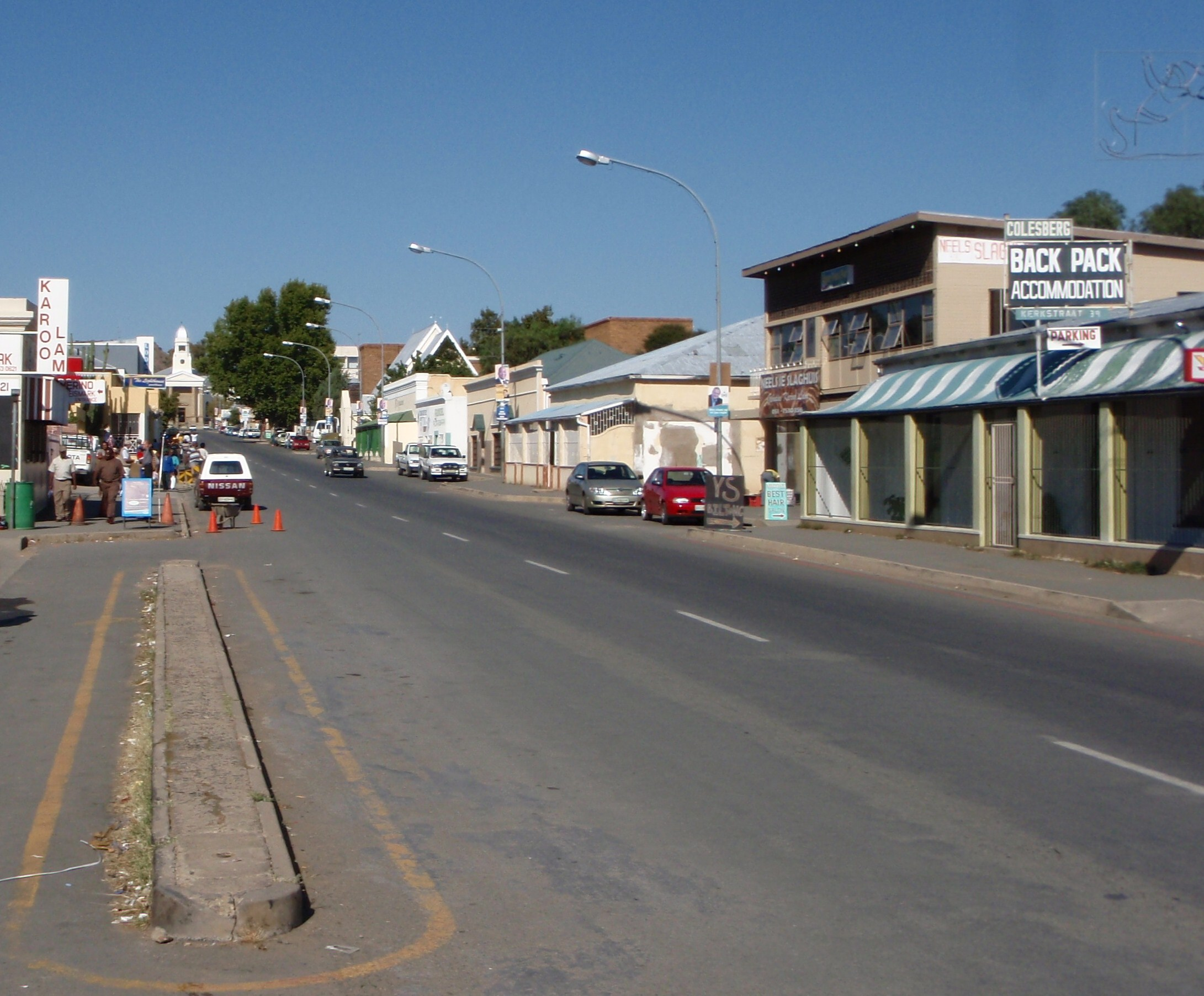 View of the main street of Colesberg, Northern Cape - South Africa